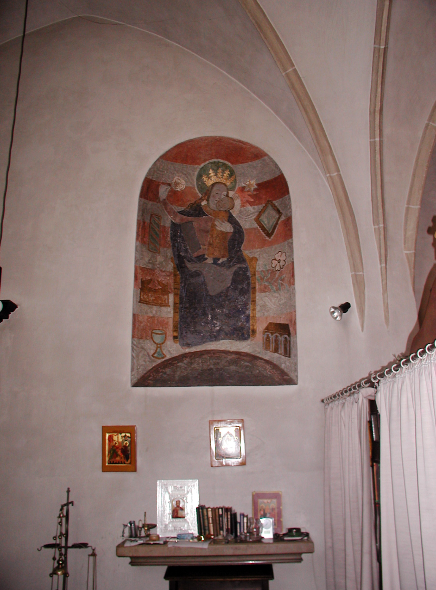 Cologne, Maria Ablass chapel (1431)